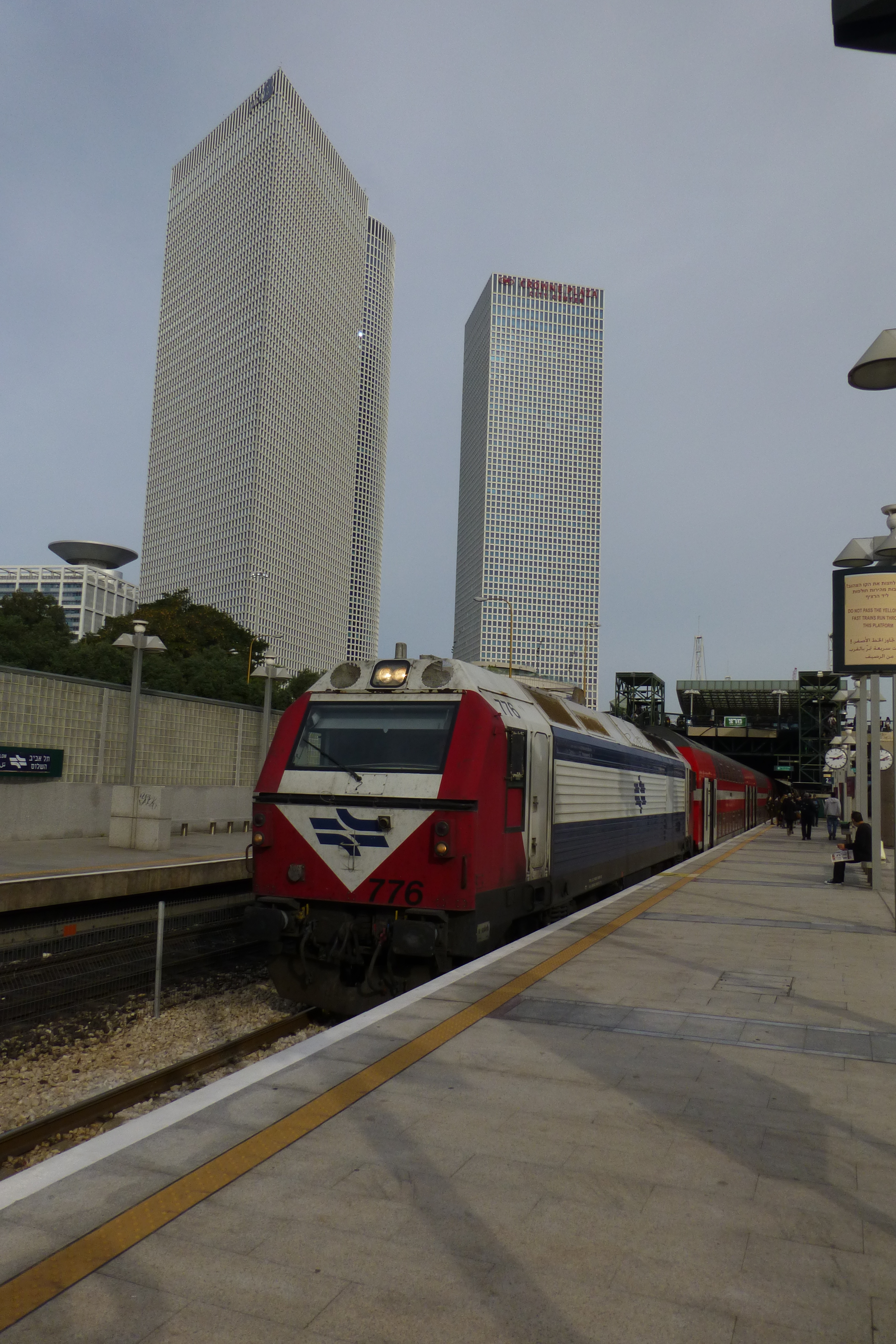 Azriely Towers